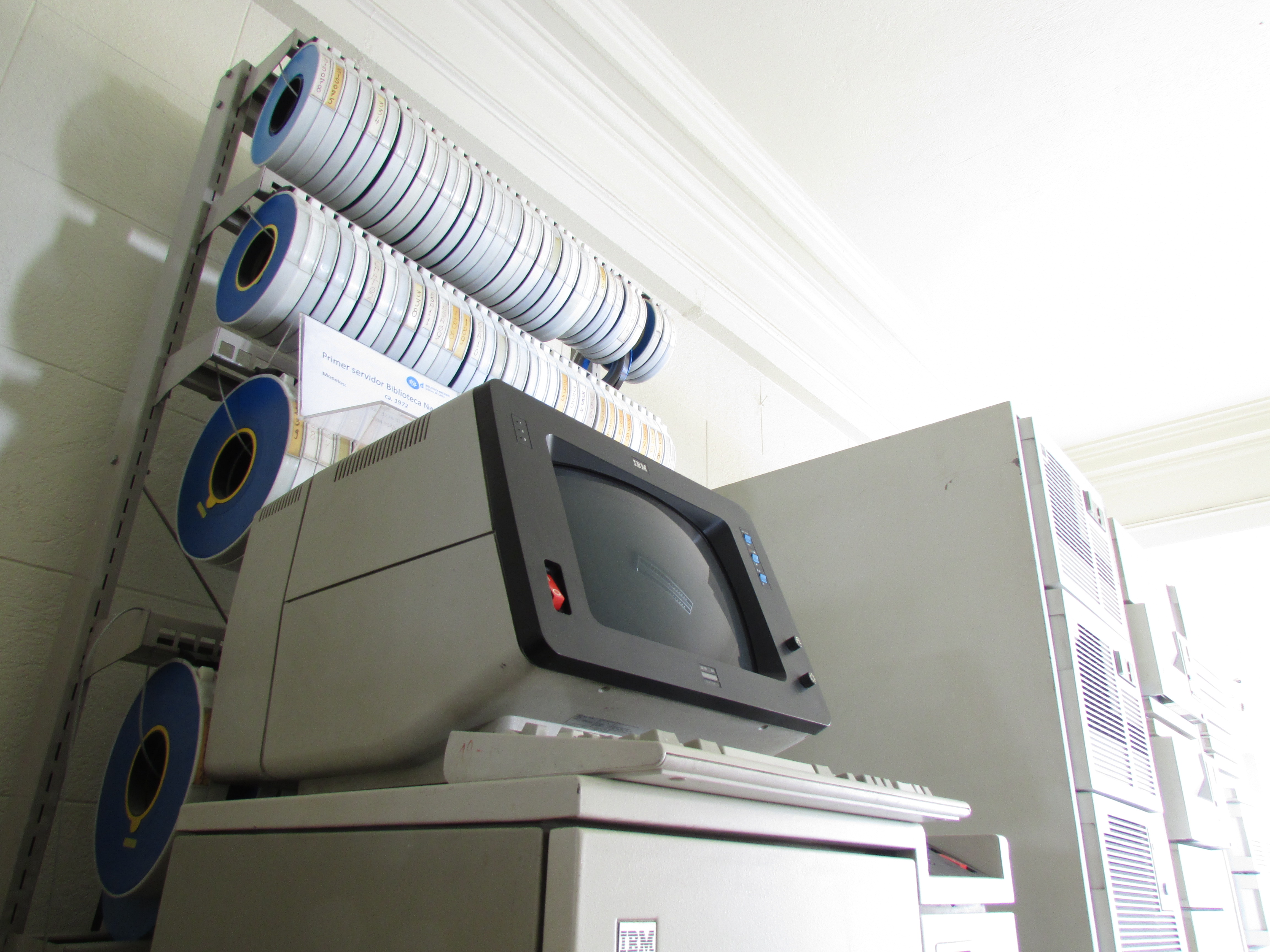 First server of the National Library of Chile, ca. 1972. This is a photo of a national monument in Chile: 102